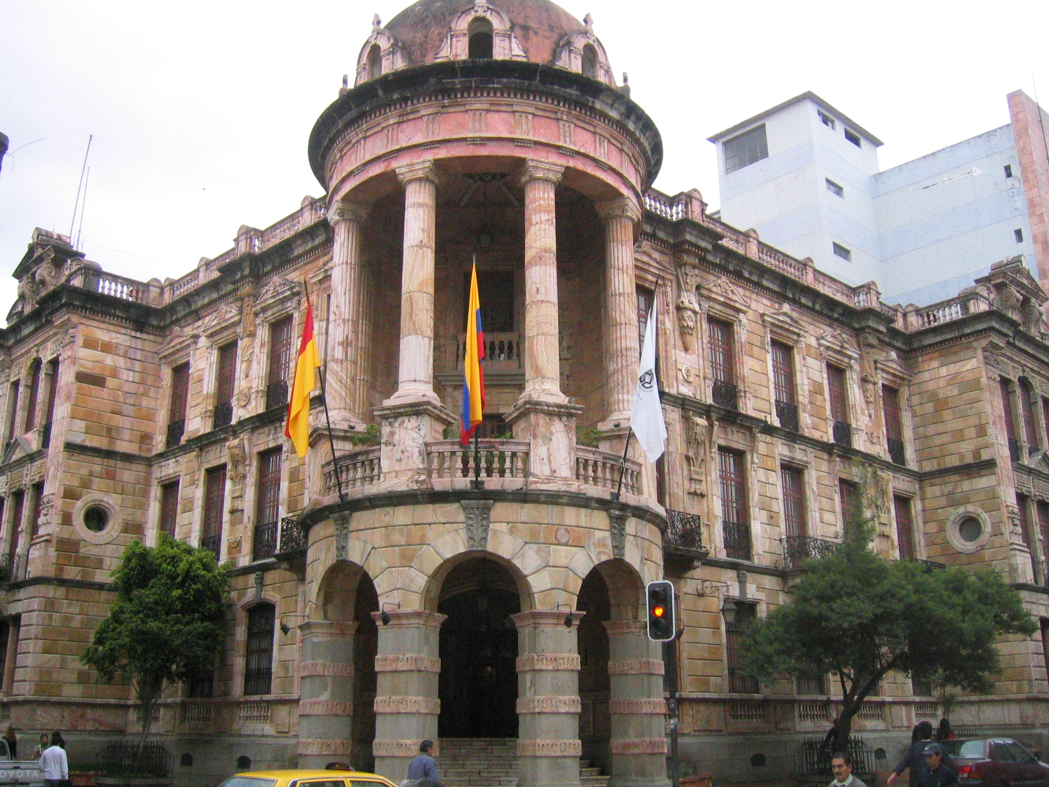 Front view of the first building of the Municipio de Cuenca.